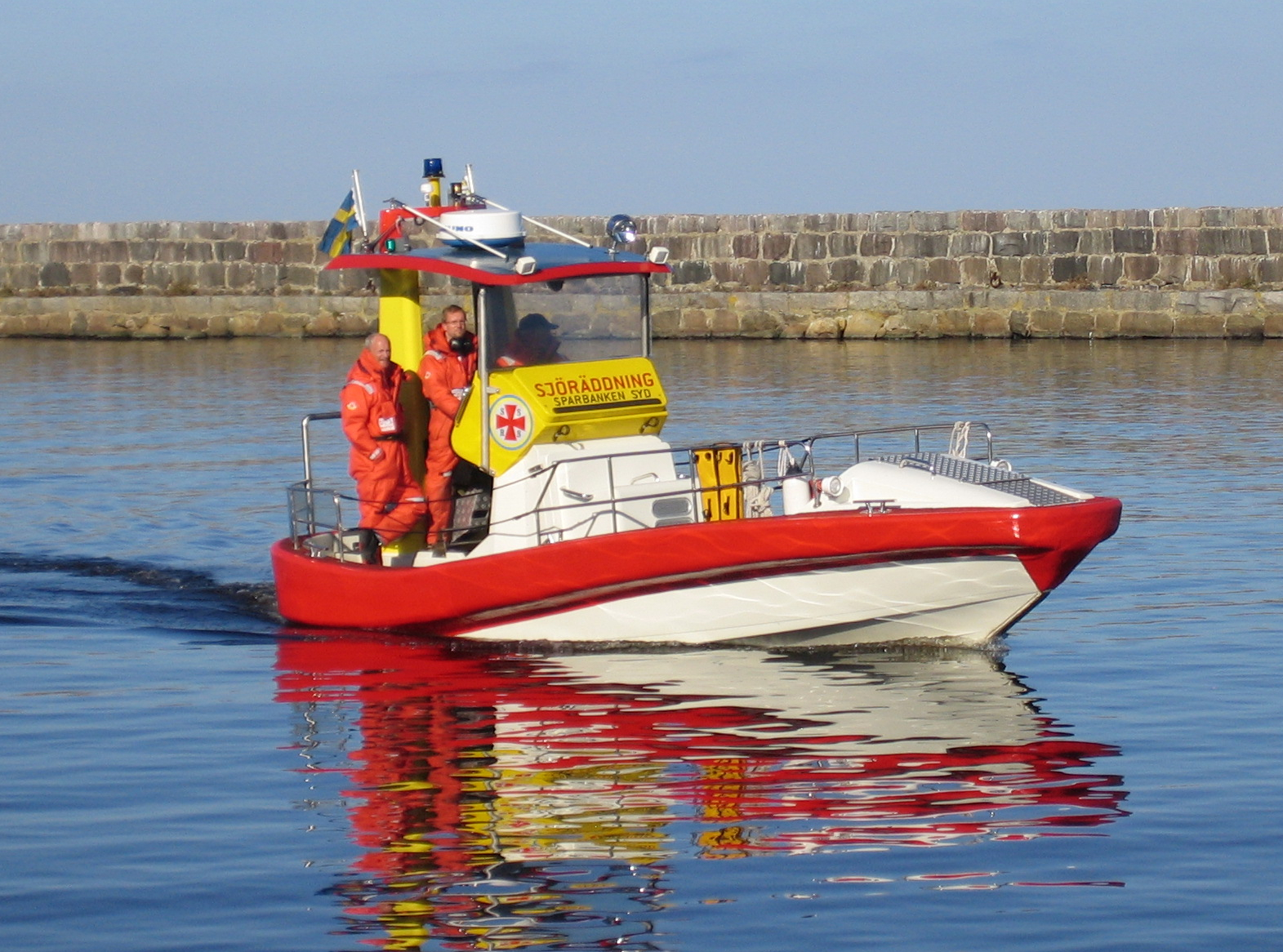 Rescue boat of Gunnel Larsson class